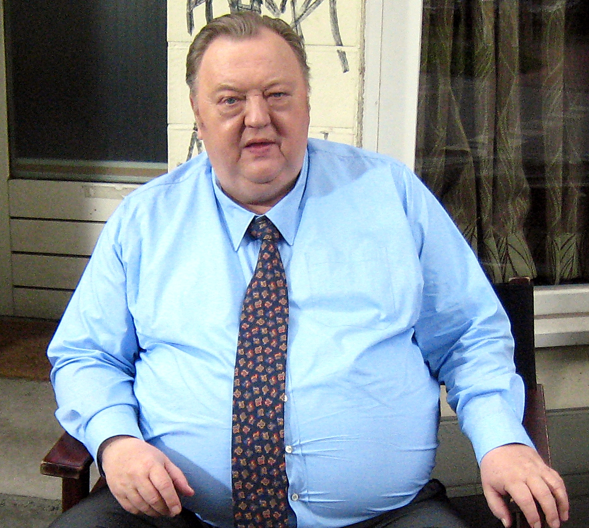 Dieter Pfaff Actors